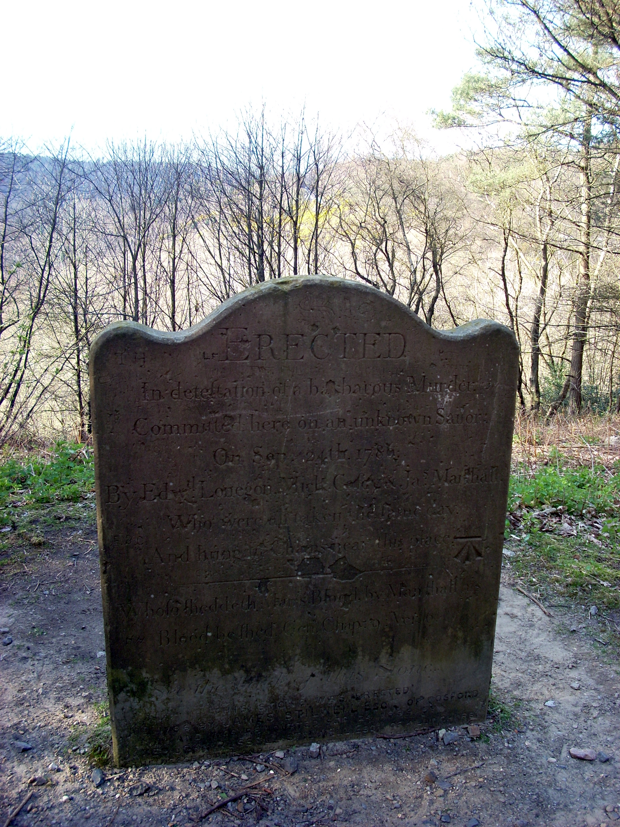 The memorial to the murdered sailor on Gibbet Hill, Hindhead, Surrey, UK. Text reads: ERECTED In deteftation of a barbarous Murder Committed here on an unknown Sailor On Sep 24th 1786 By Edwd Lonegon. Mich Cafey & Jas Marshall. Who were all taken the fame day. And hung in Chains near this place. Whofo fheddeth Man's Blood, by Man fhall his Blood be fhed Gen. Chap. 9 Ver. 6. See the back of this Stone. THIS STONE WAS ERECTED A D 1786 BY JAMES STILWELL ESQ OF COSFORD AND WAS RENOVATED SEP 24 1889 BY JAMES JOHN RUSSELL STILWELL ESQR OF KILLINGHURST (THE DESCENDANT AND REPRESENTATIVE OF THE STILWELLS) According to historical records a further line is below this barely legible last line, and is now buried. It says: OF COSFORD AND MOUSHILL.